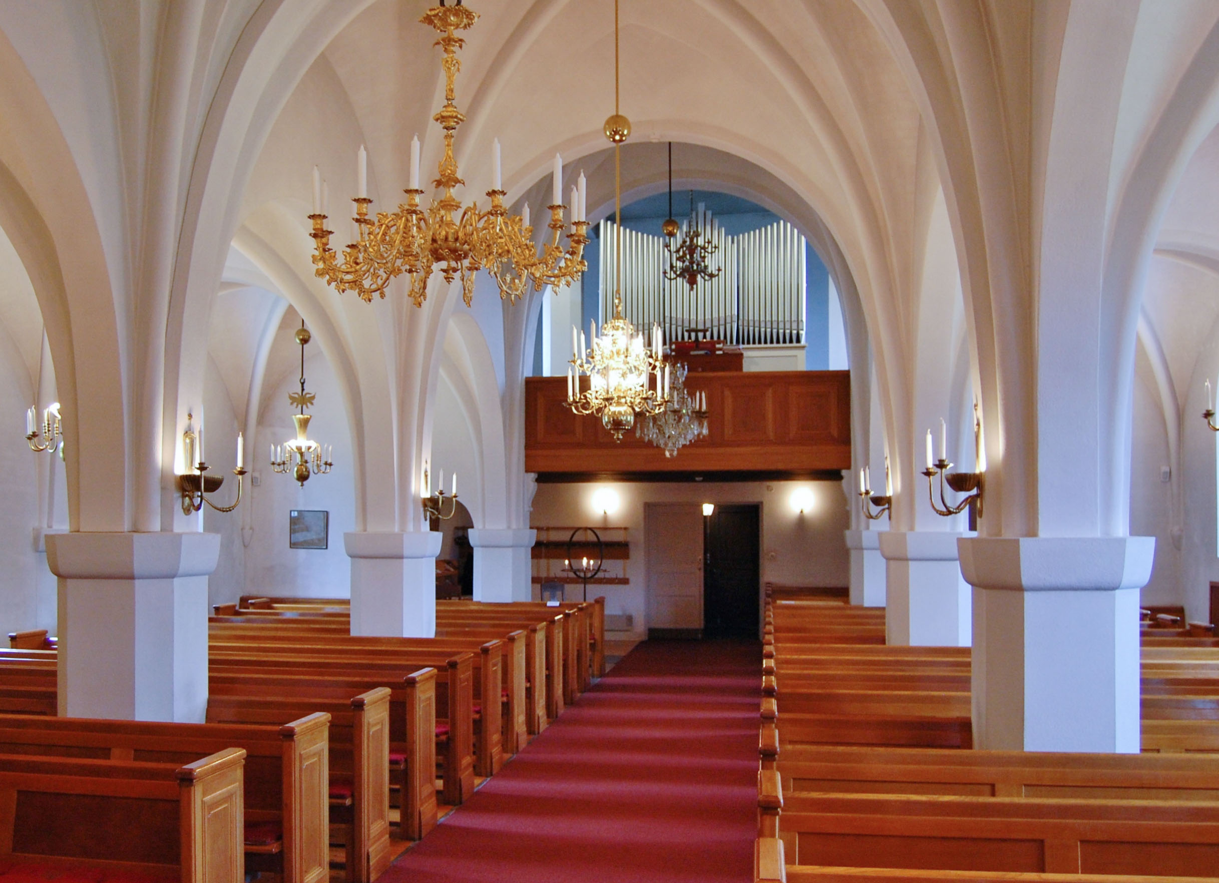 Sillhövda Church.Interior